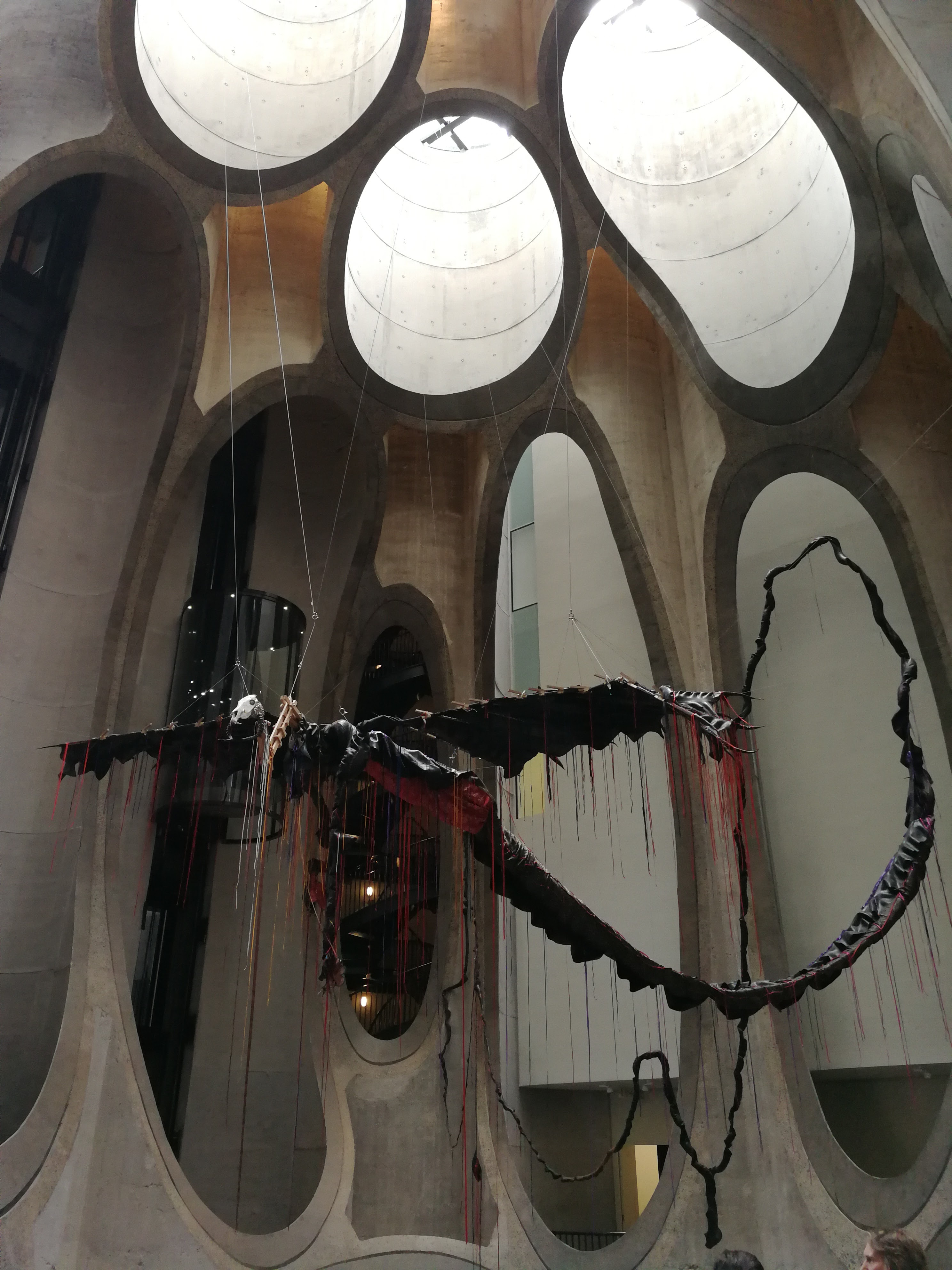 Zeitz Museum of Contemporary Art Africa